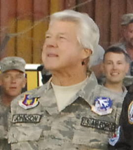 Curt Menefee and other members of the "Fox NFL Sunday" team waits for the start of the pregame Nov. 7, 2009. The "Fox NFL Sunday" team is scheduled to broadcast live Nov. 8, 2009 from here.